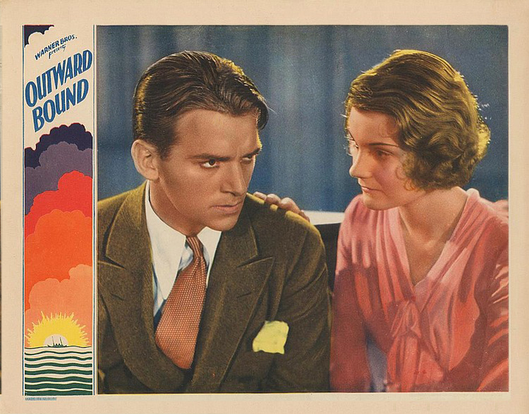 Lobby card for the film Outward Bound